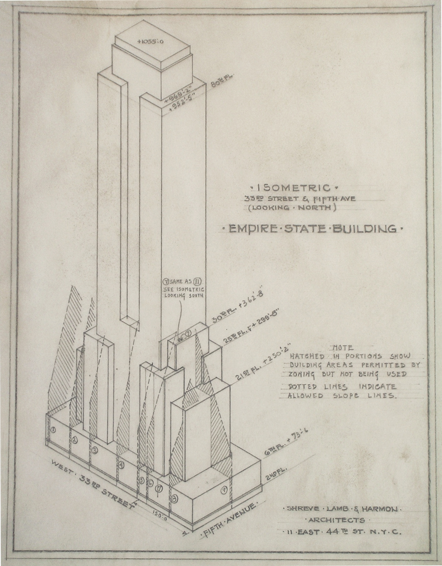 One of many architect sketches for the skyscraper.